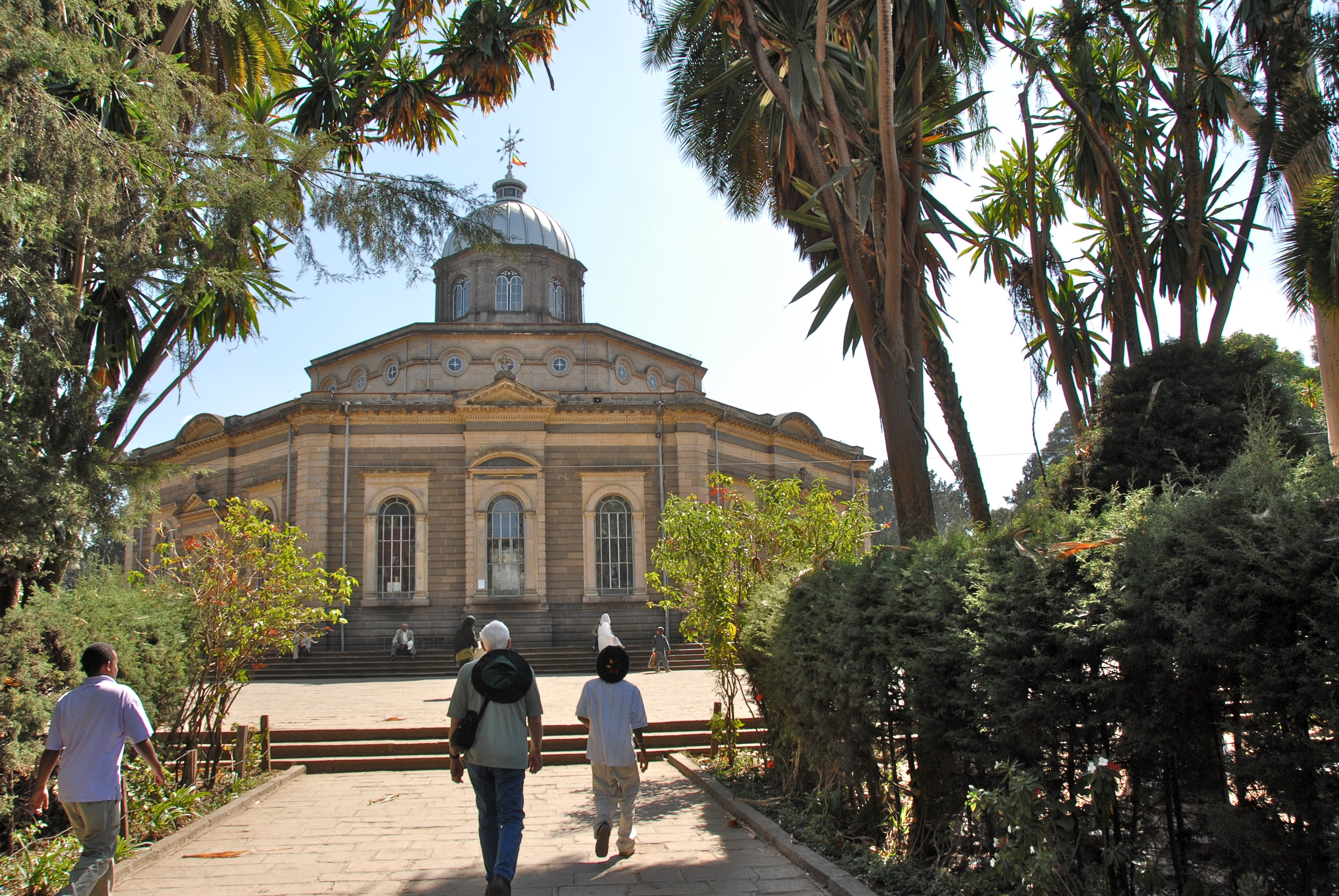 St. George's Cathedral